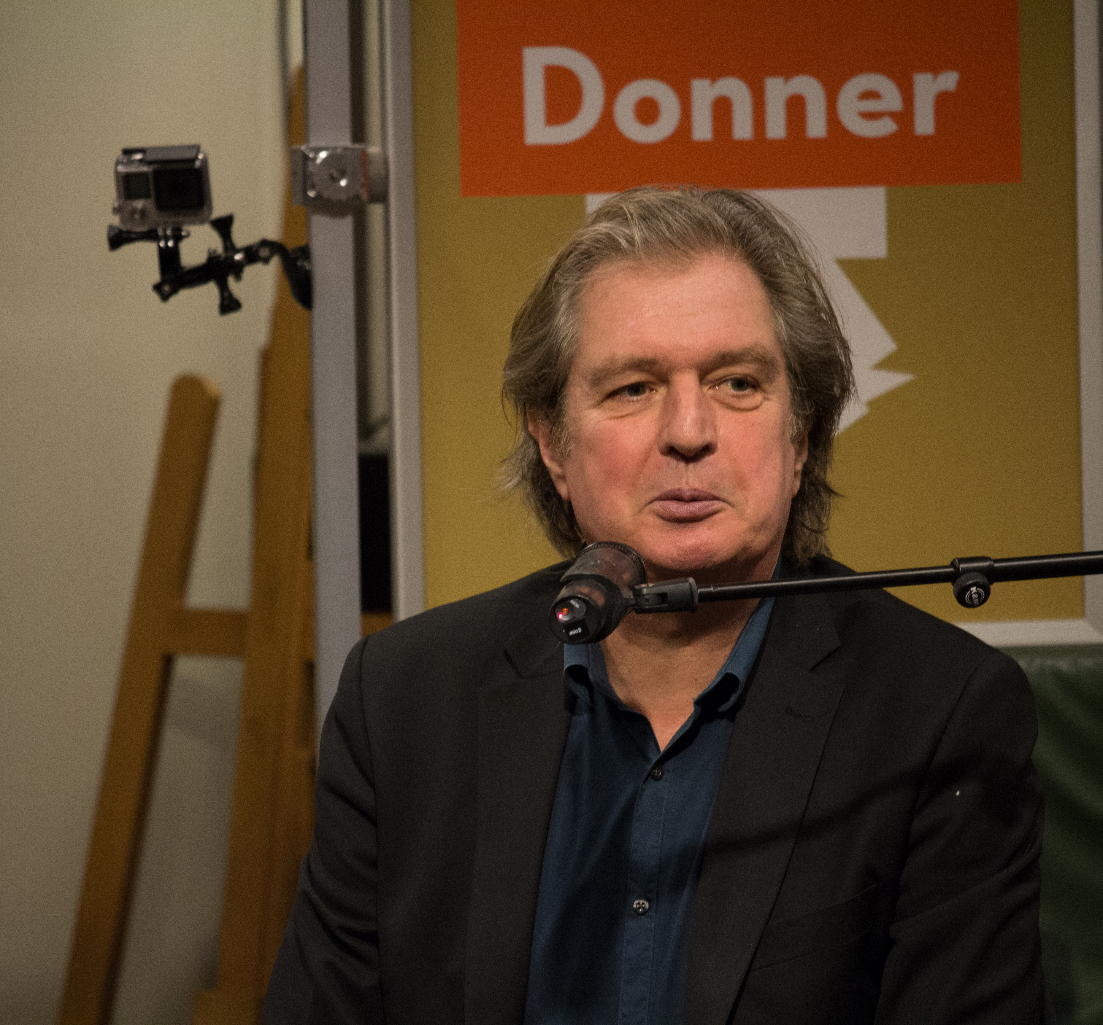 Wim Brands at "Week of Poetry" event